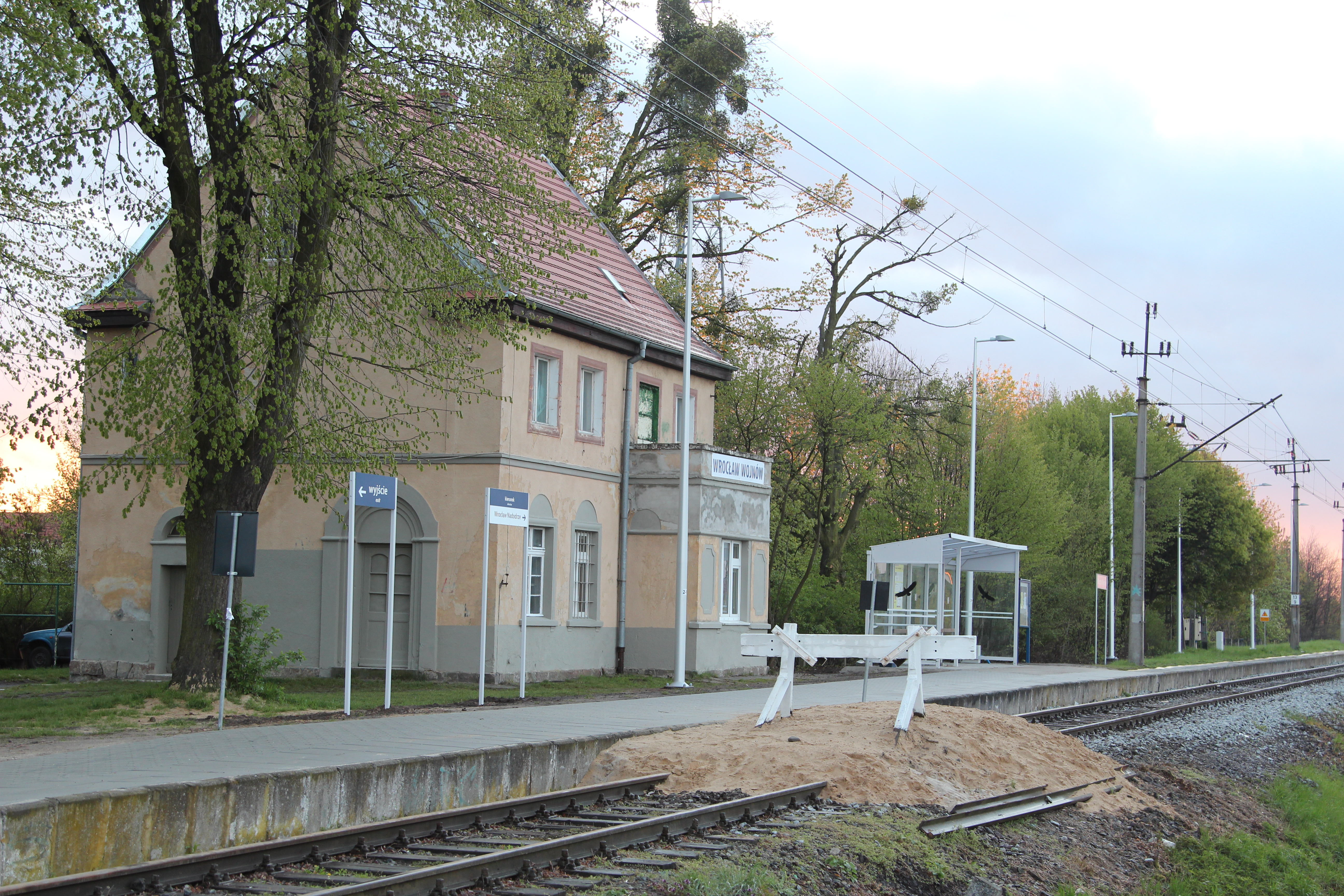 Wrocław Wojnów train station